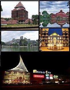 Date:07 July 2012